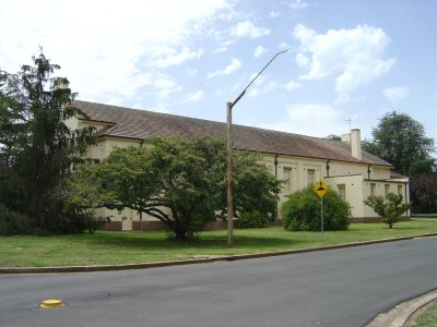 Bloomfield Hospital, Orange: Bloomfield Hospital. Recreation Room